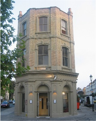 Finborough Theatre outside